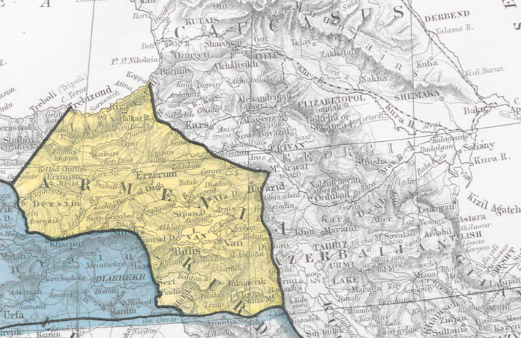 1919 British map ahead of Paris Peace Conference - extract regarding Sazonov–Paléologue Agreement